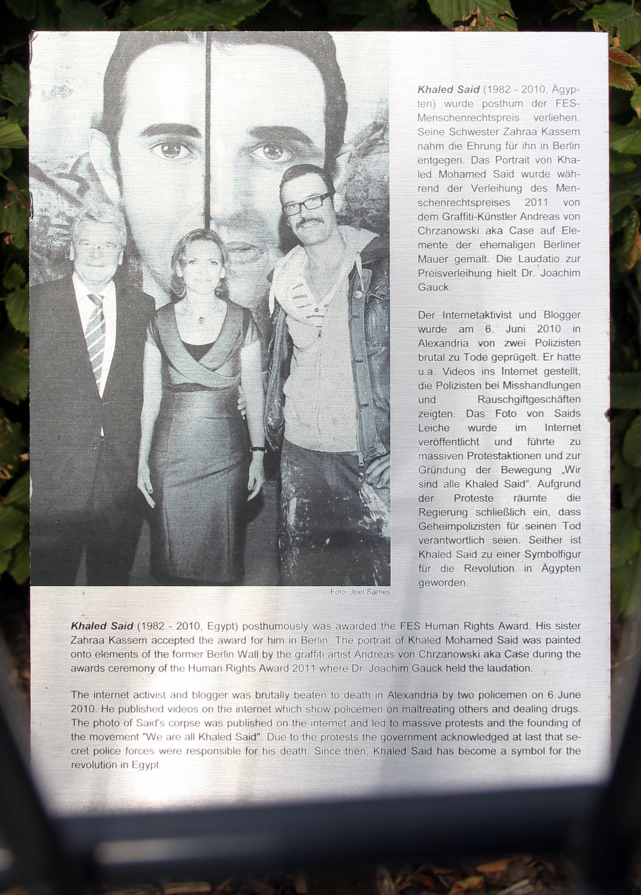 Memorial plaque, Chalid Muhammad Saʿid, Reichpietschufer 92, Berlin-Tiergarten, Deutschland